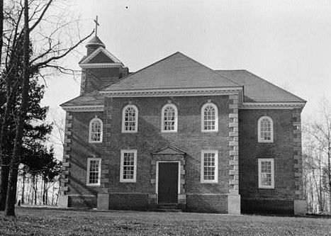 Aquia Church (Stafford County, Virginia).(cropped)